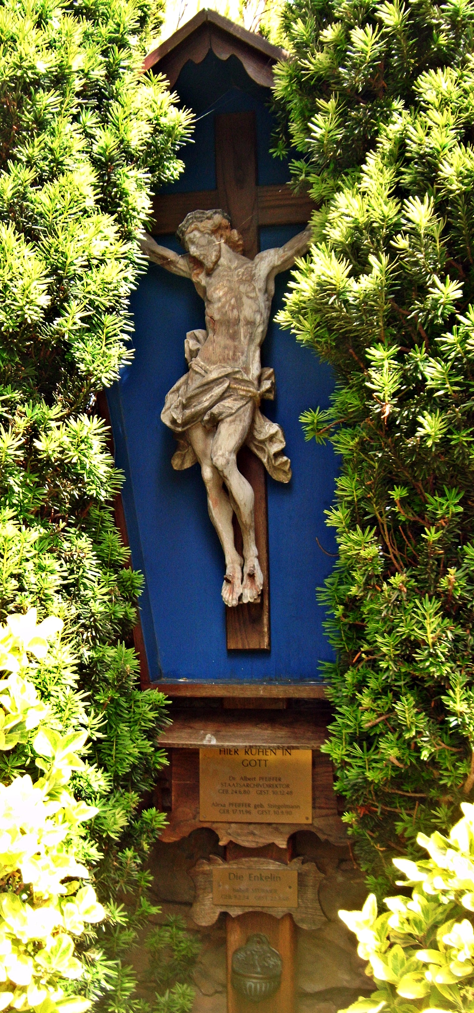 Grabkreuz Archivrat Albert Pfeiffer (1880-1948), Friedhof Gleisweiler